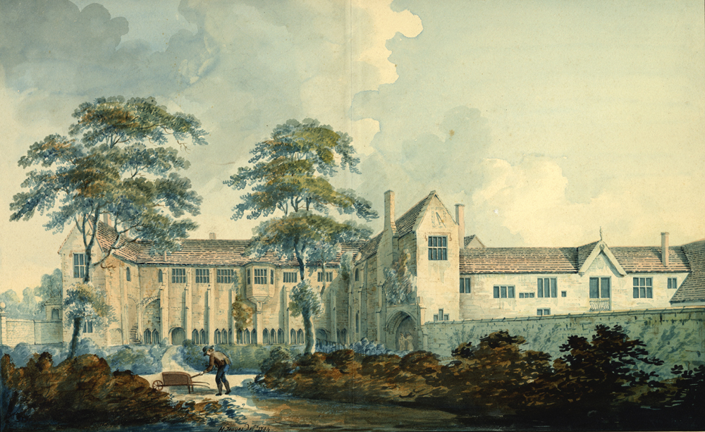 Watercolour of Whitefriars, Coventry